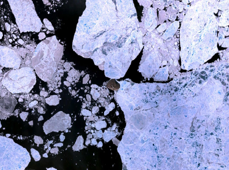 Hans Island, a disputed island in the Nares Strait near Greenland. NASA Landsat 7 image.